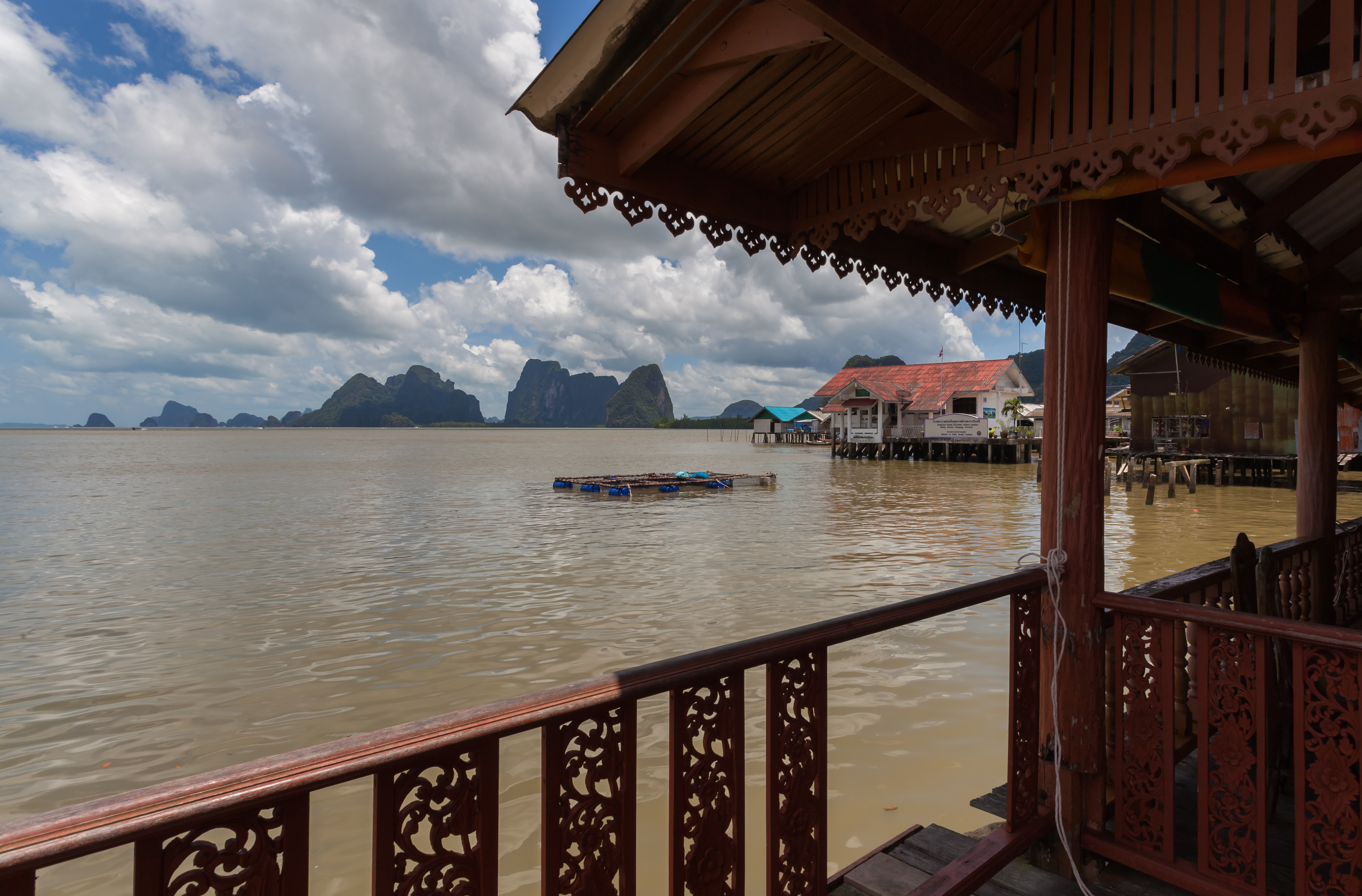 Panyee Island, Phuket, Thailand